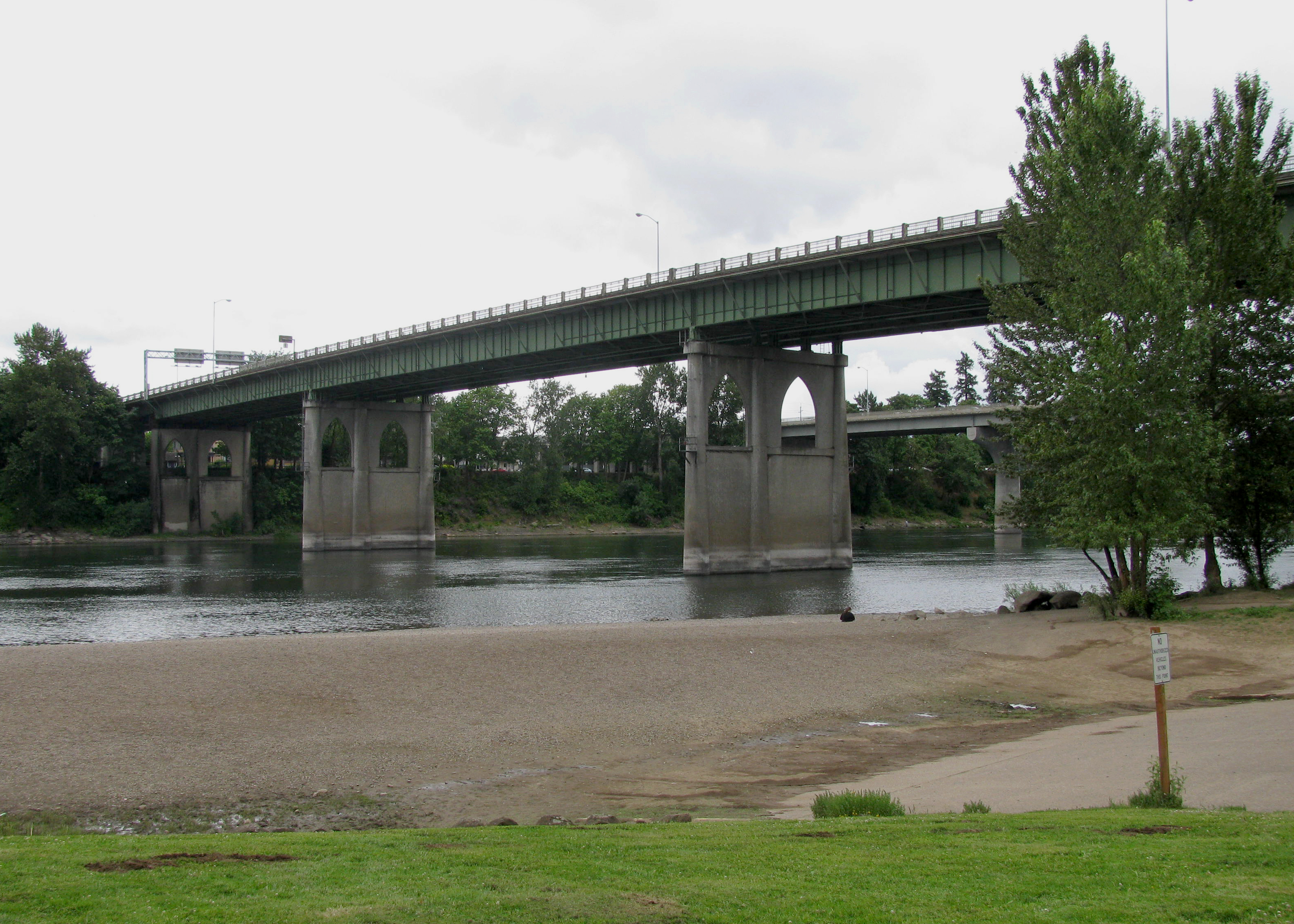 Opened in Salem in 1954, this bridge underwent major repairs in 2013, including: paving, joints and replacement of other structural parts. Once the load rating is updated to account for the recent repairs, this bridge should no longer be categorized as 'structurally deficient.' Bridge rating: 48.5 Sufficiency: Structurally deficient